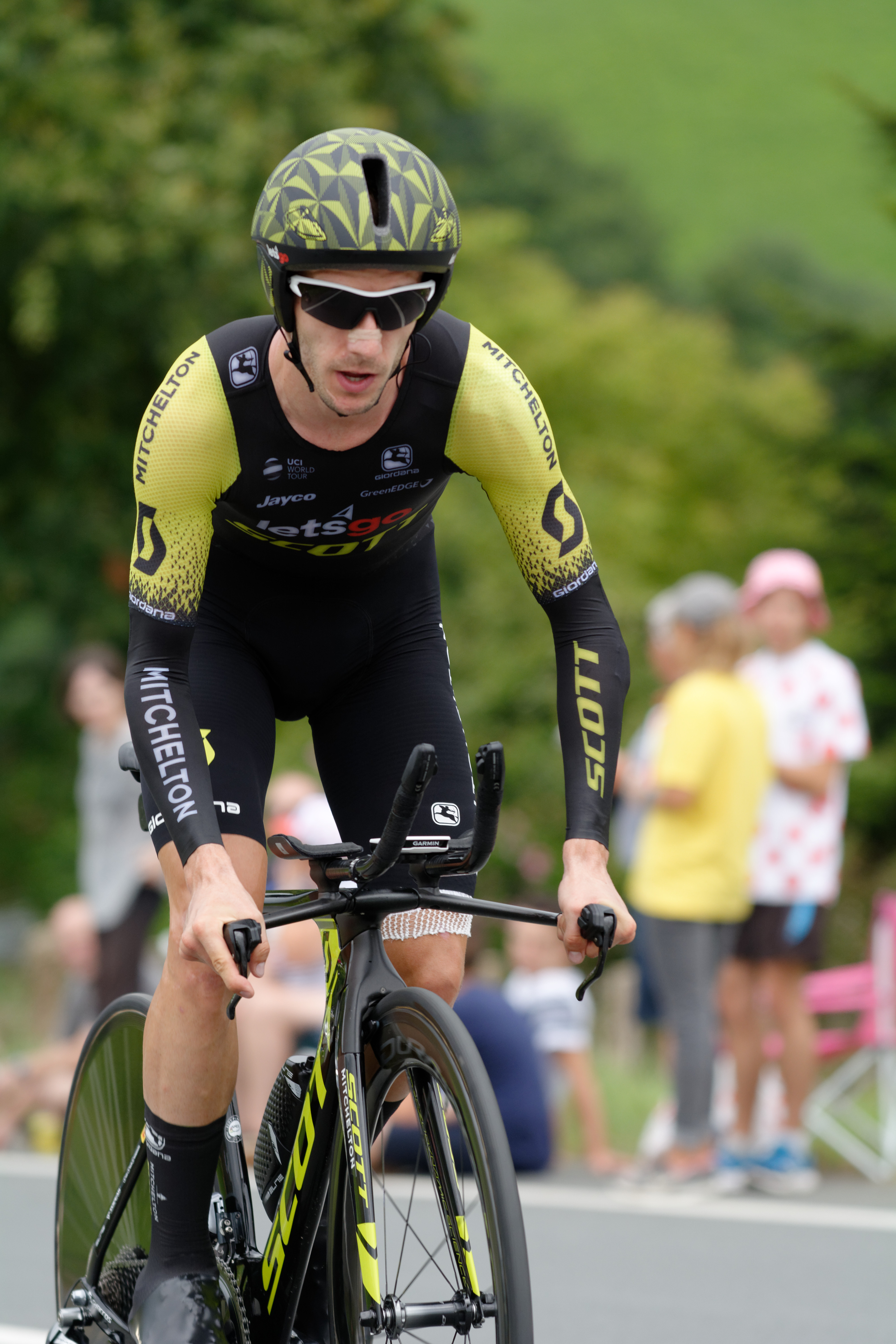 2018 Tour de France